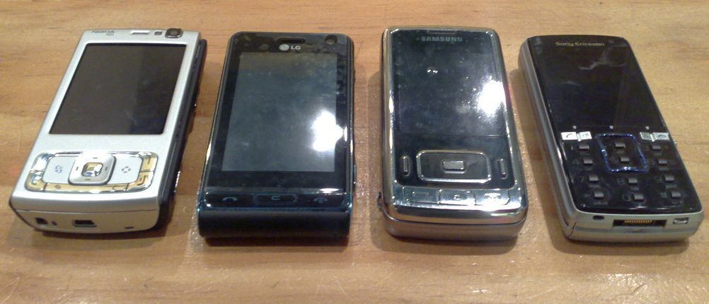 Nokia N95 - - LG KU990 Viewty - - Samsung G800 - - Sony Ericsson K850i